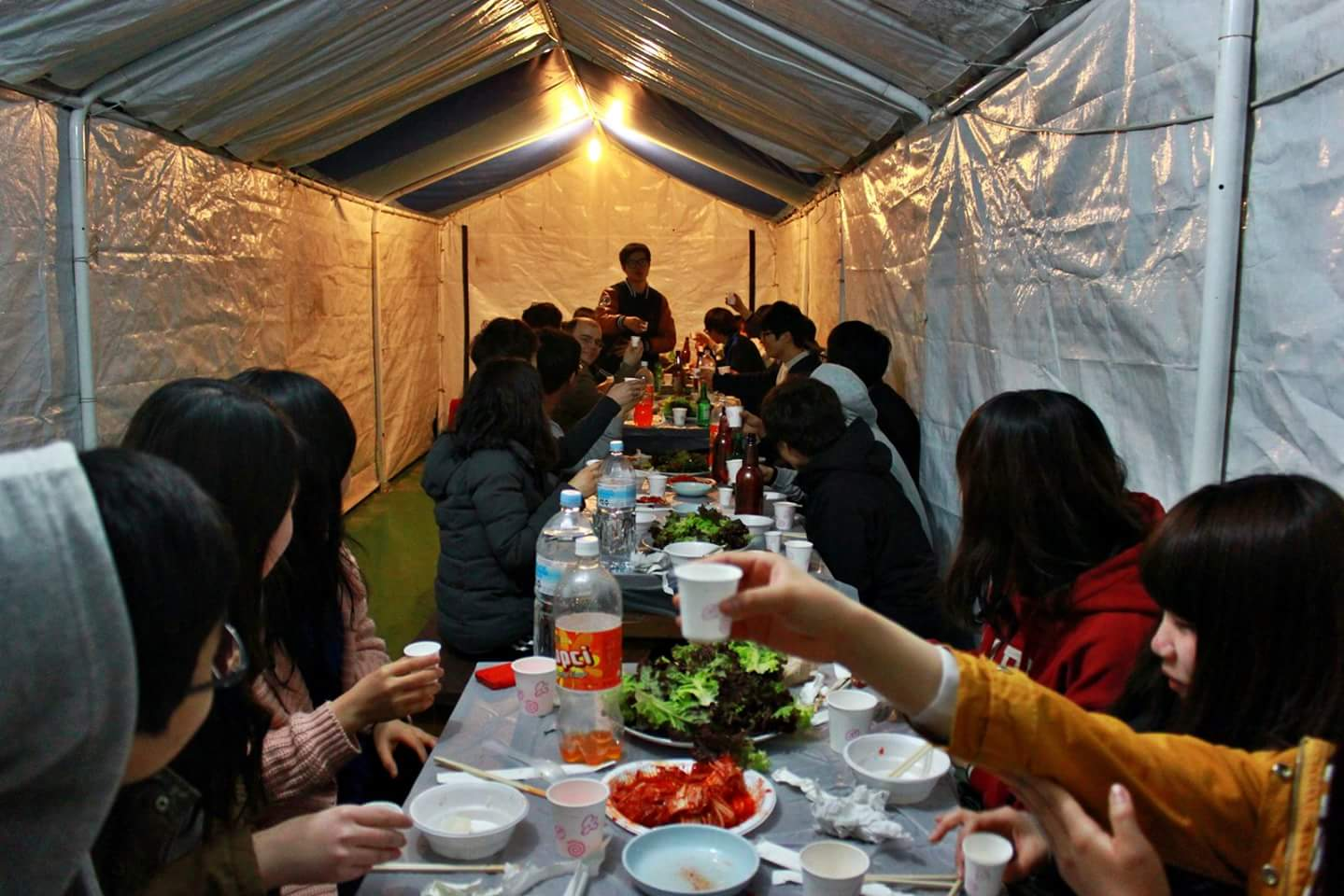 It is scene of MT